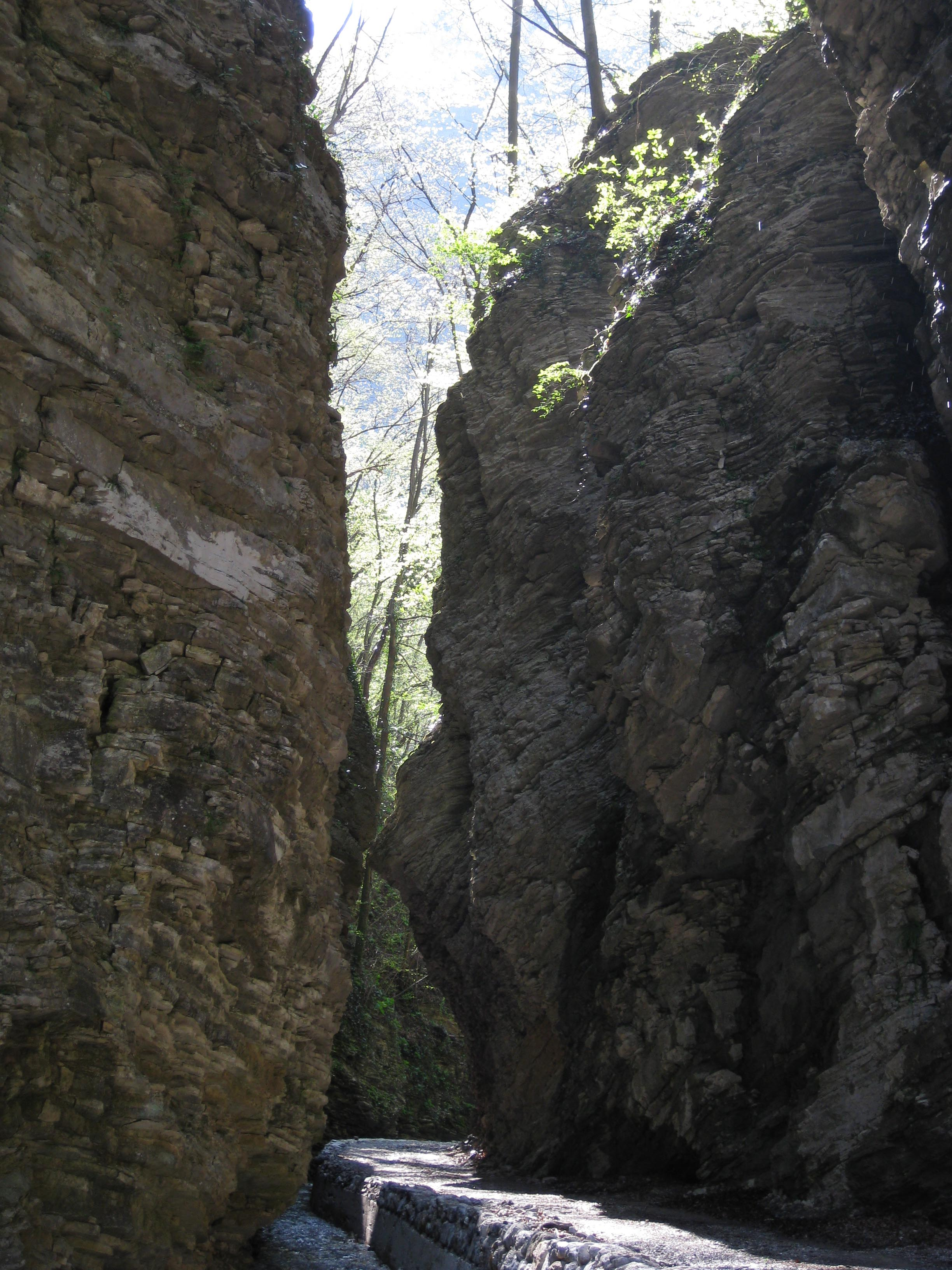 Driselpoh, canyon and valley in Slovenia, in Baška Grapa near Podbrdo village